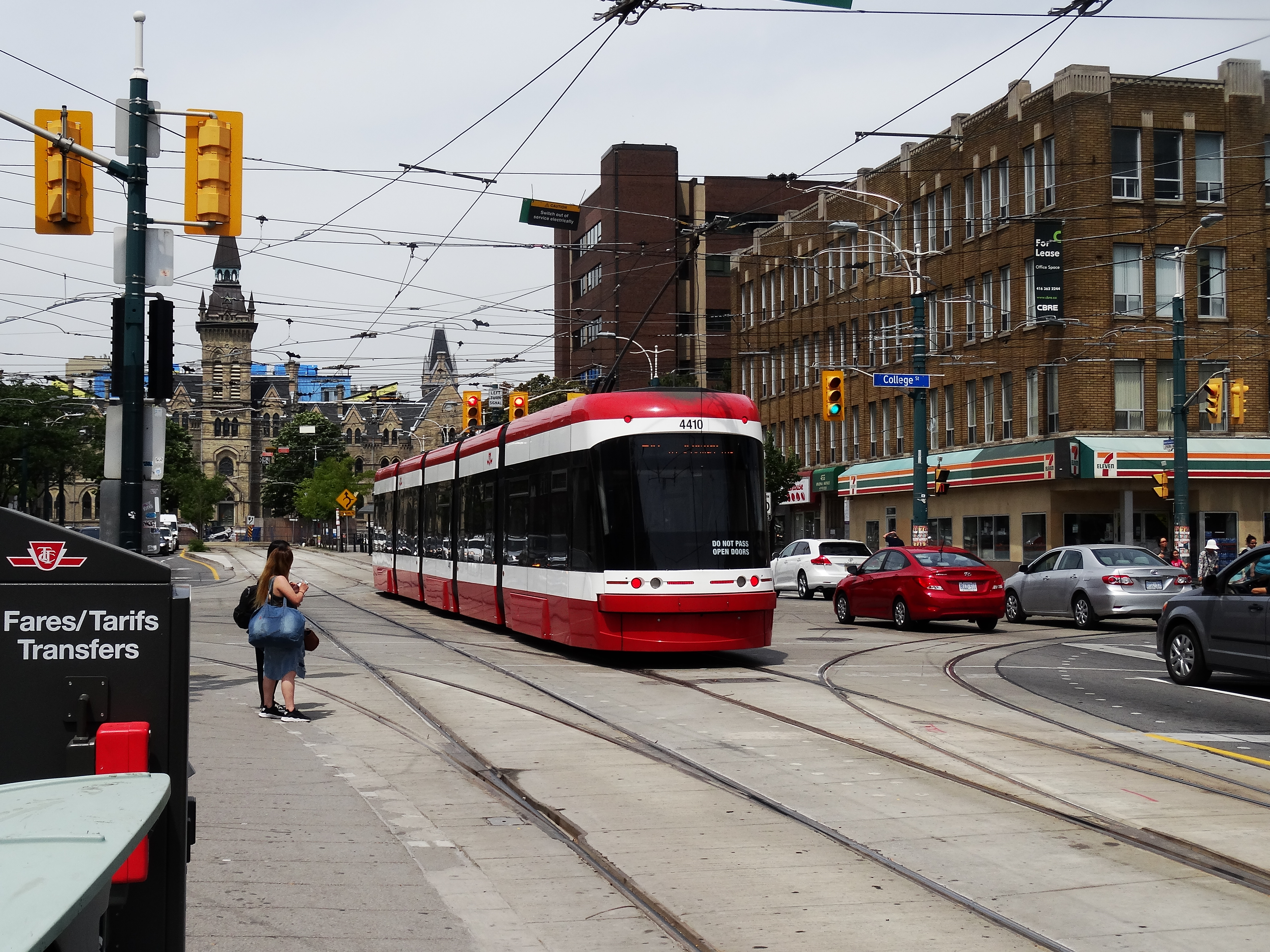 New Flexity LR vehicles at Spadina and College, 2016 07 21 (14).JPG